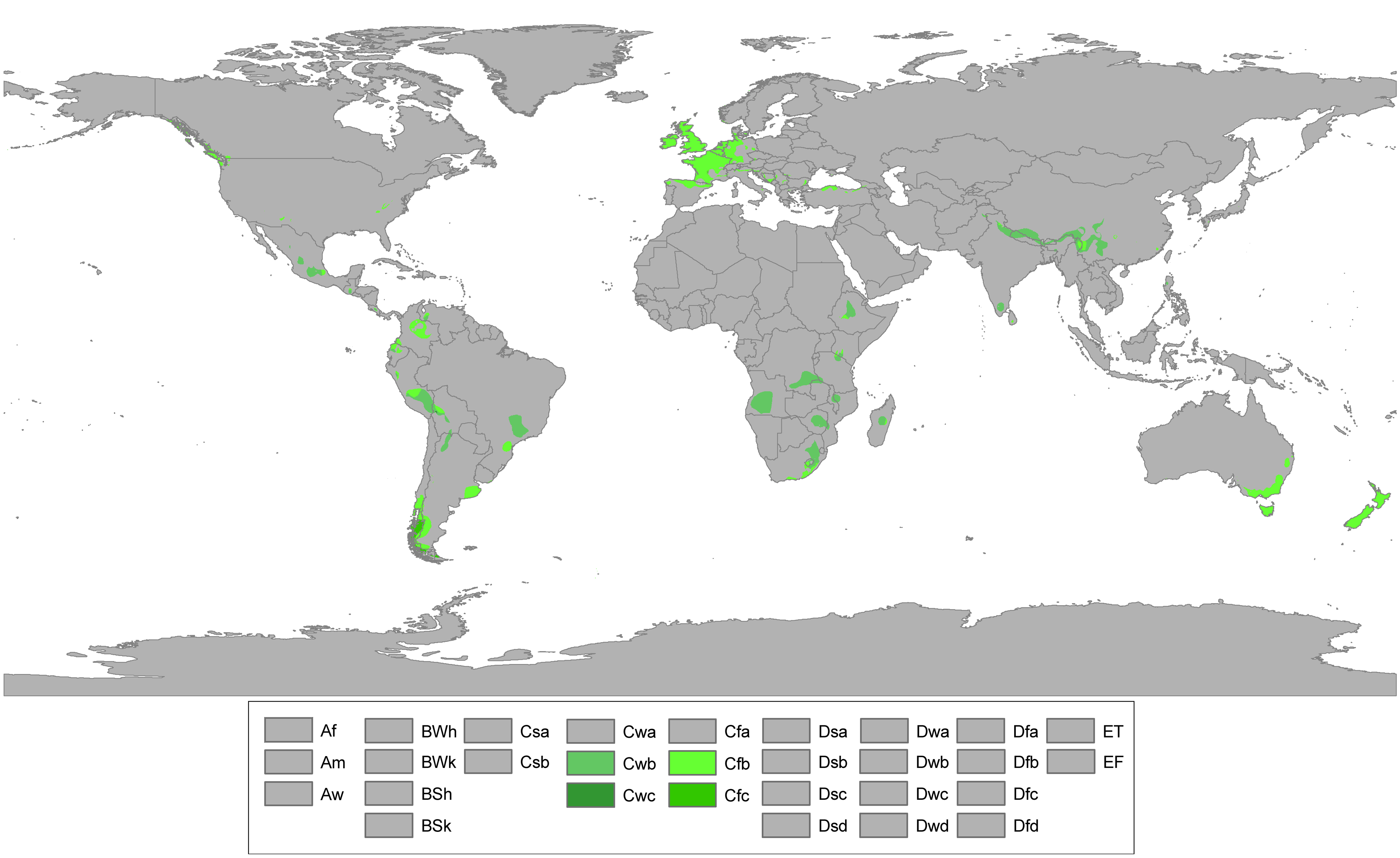 Updated world map of the Köppen-Geiger climate classification. Oceanic climates (Cfb, Cfc, Cwb, Cwc)